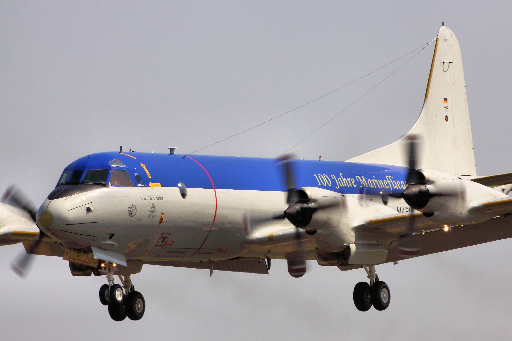 P-3C Orion - RIAT 2013